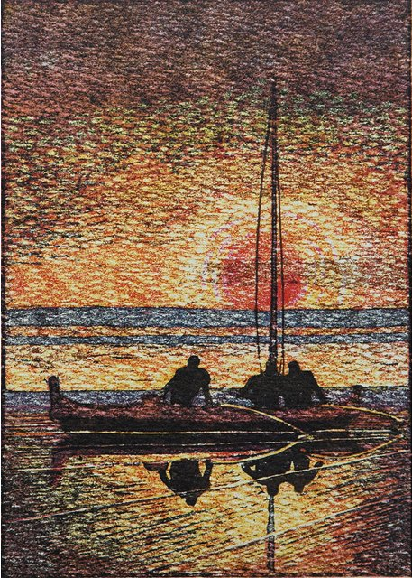 Sunset at Christmas Eve, Honolulu, Hawaii, woodblock print by Arman Manookian, 6 x 4.25 in.